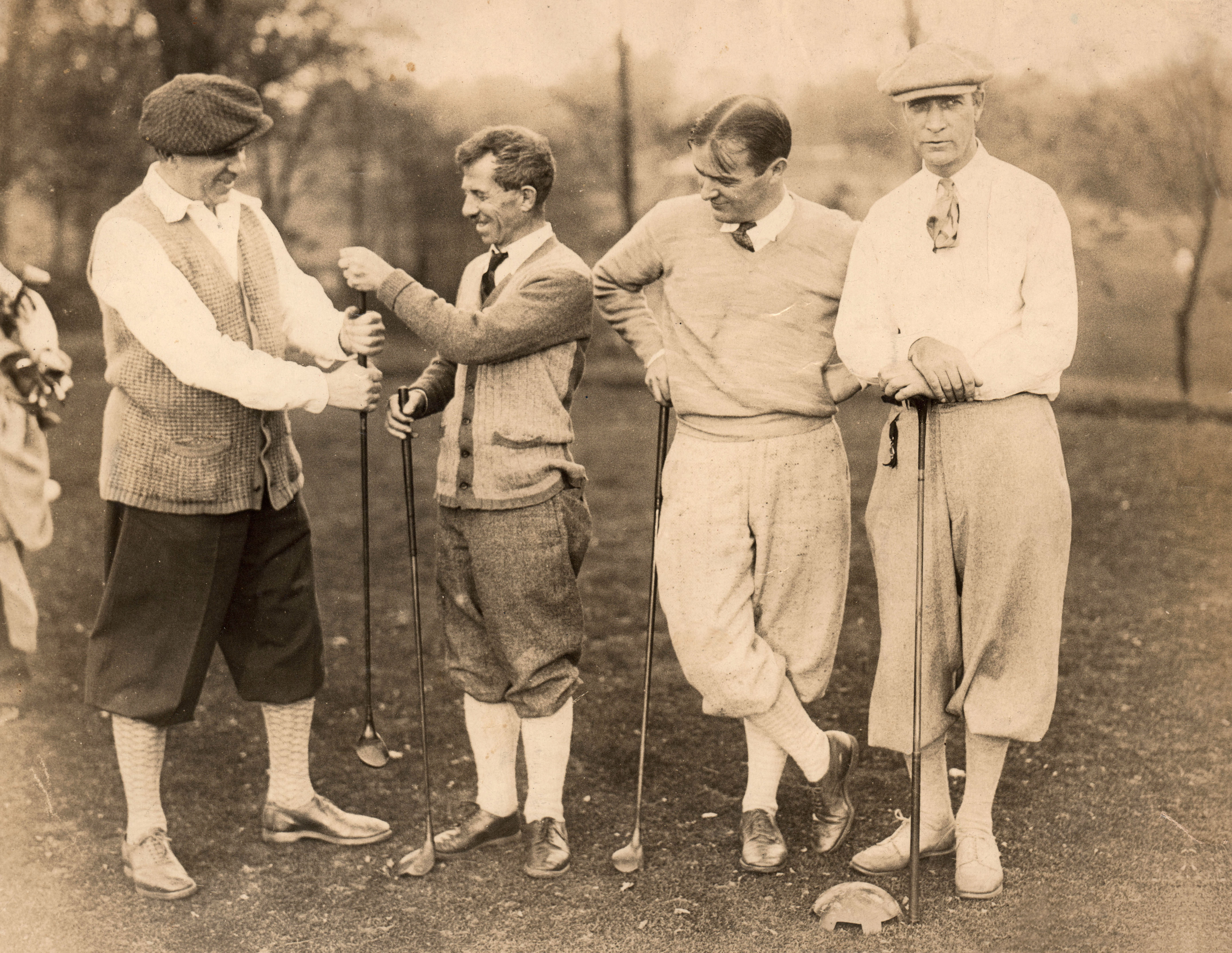 Four of the six members of the Knot-Very Social and Musical Frat preparing to play golf in the early 1920s. Among the members was journalist James J. Montague (second from left), author of the popular "More Truth than Poetry" column.